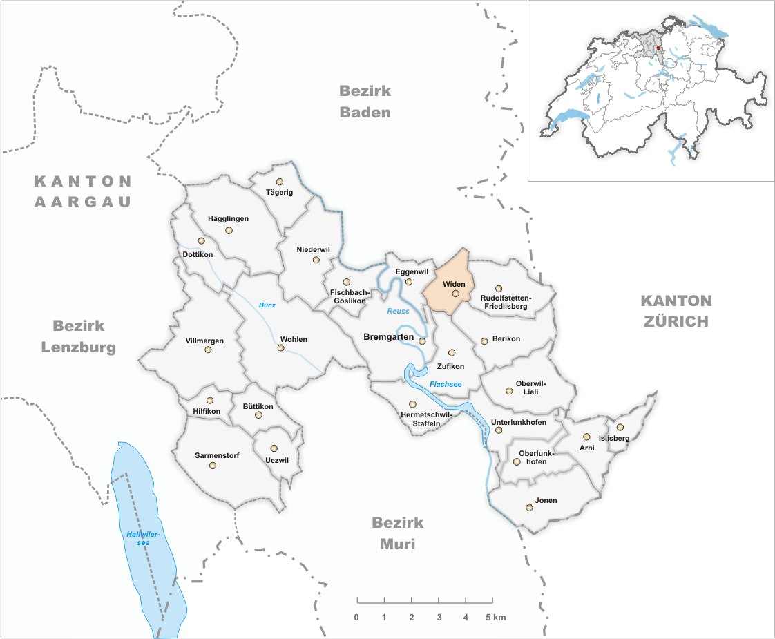 Municipality Widen